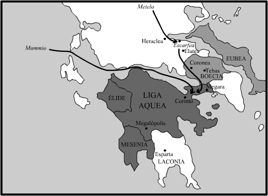 The Achaean War, 146 BC.